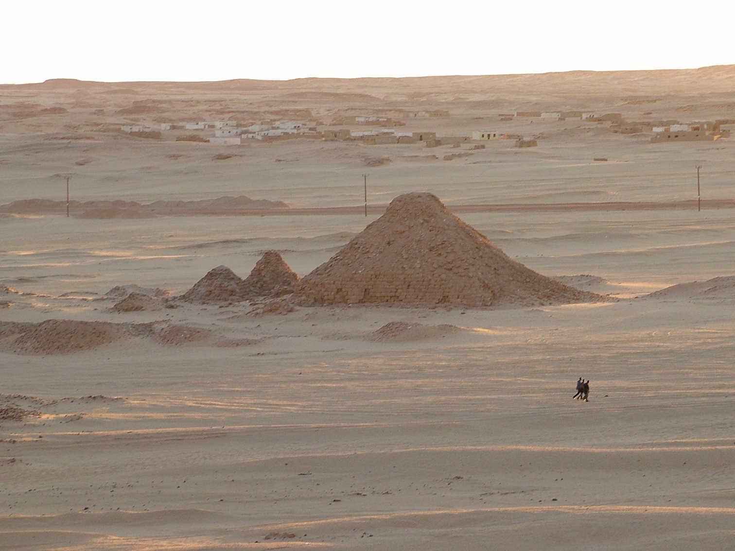 Pyramids in Gebel Barkal Southern group